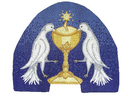 Order of Camaldoli emblem: two doves drinking from a chalice.